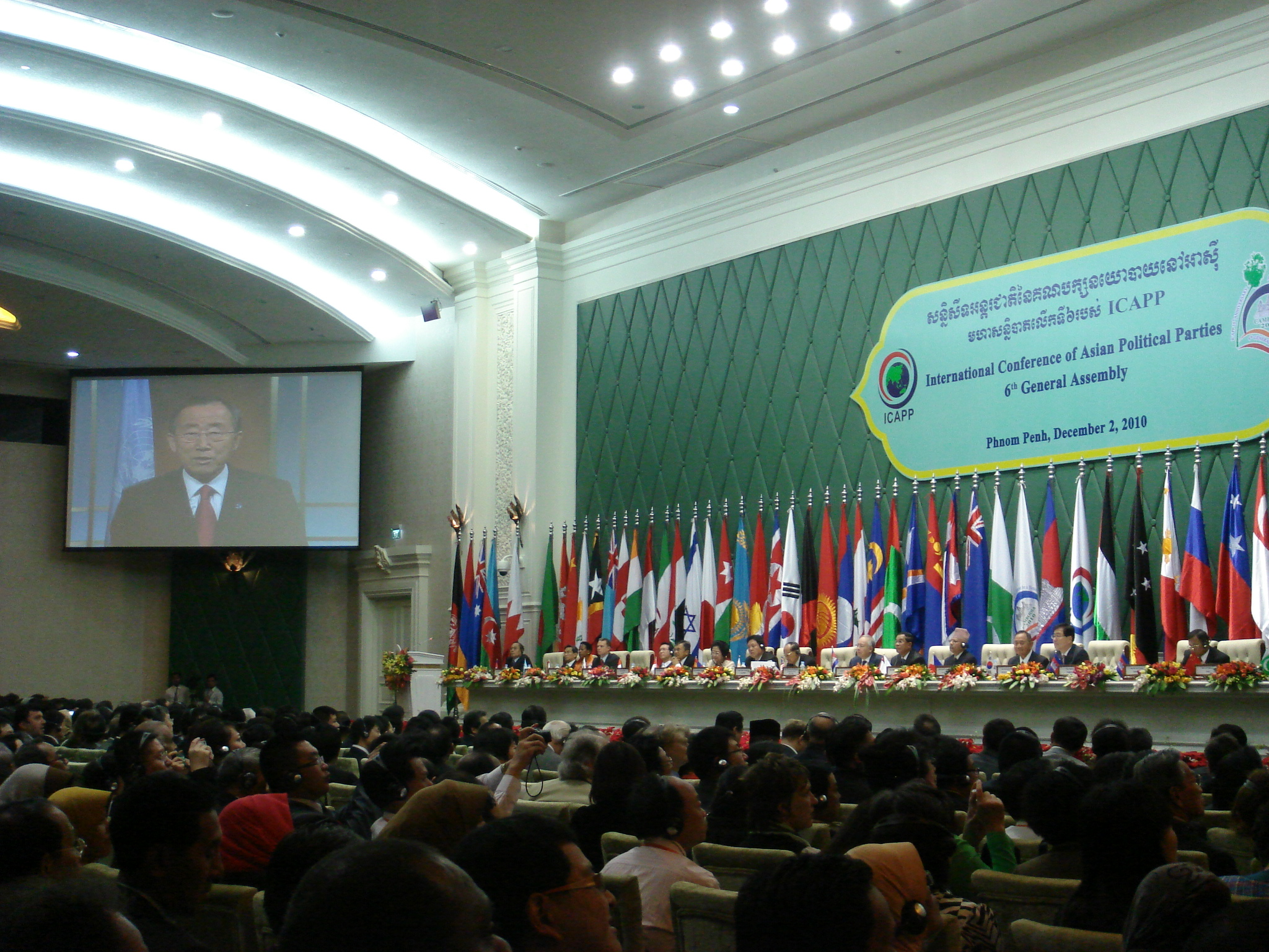 Conference Photo